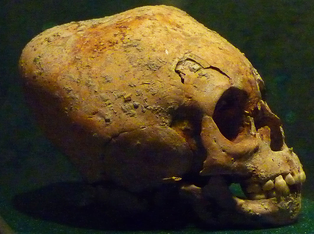 modified Maya skull exhibited at the Museo Nacional de Antropología e Historia, Mexico